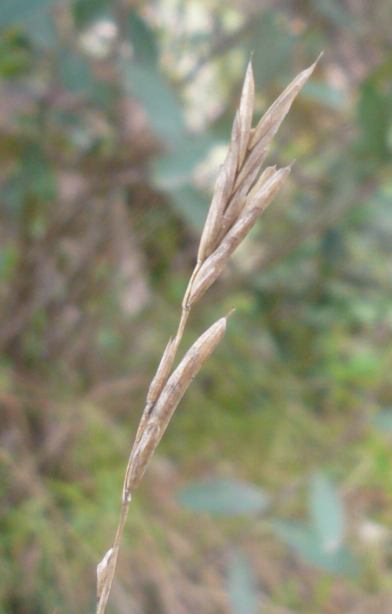 Brachypodium retusum in winter. Serra de les Torretes, Martorell, Baix Llobregat, Catalonia. February 19th 2007.